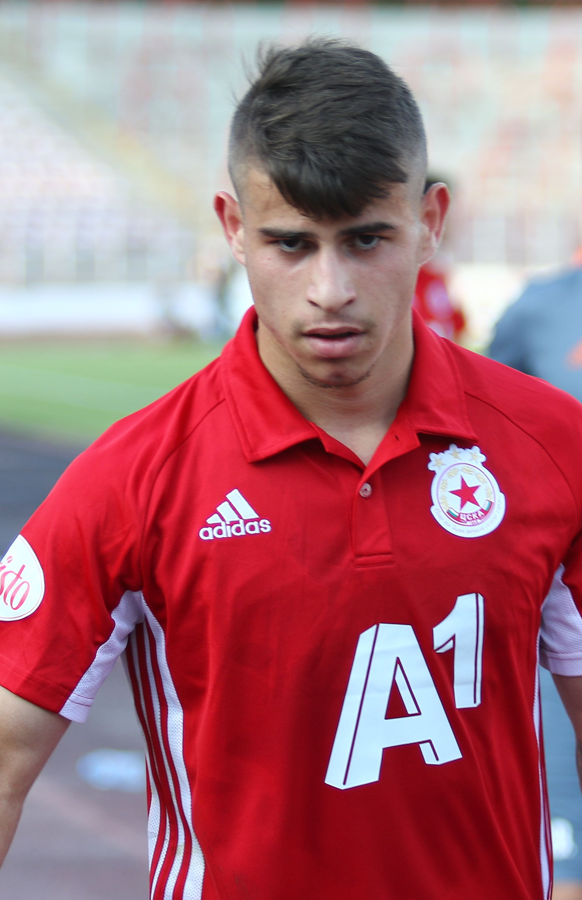 Mitko Stefanov Mitkov is a Bulgarian footballer, playing on the left wing.